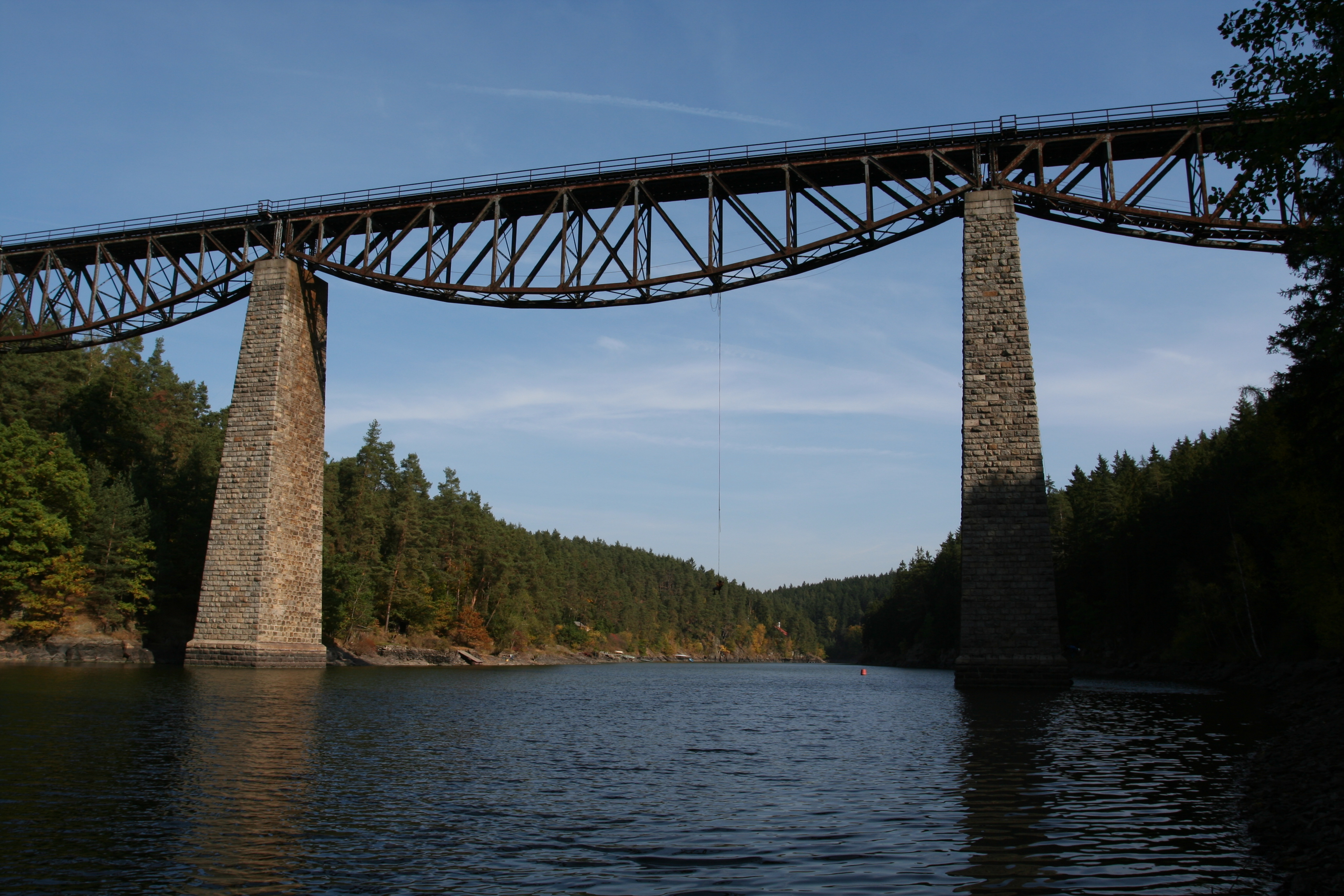 Pňovany bridge near Pilsen, Czech Republic